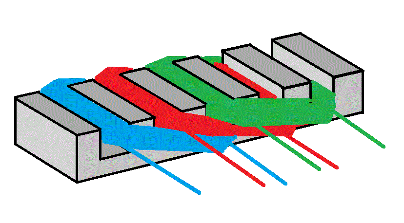 Standard 3 phase linear induction motor core and windings